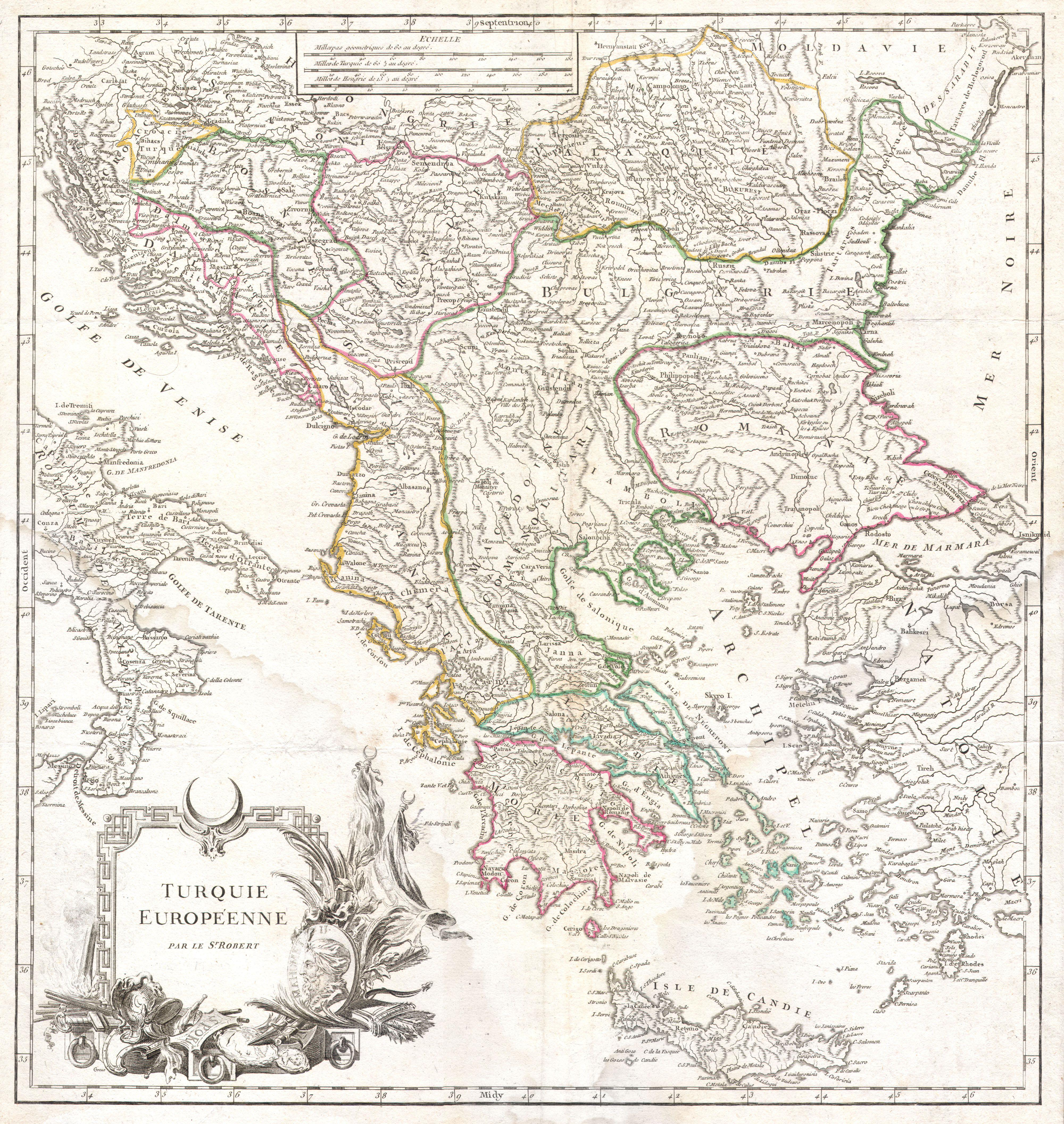 A beautiful map of Greece from De Vaugondy’s 1752 Atlas Universal. Depicts the whole of Greece from Bosnia and Croatia east to through Bulgaria and Romania to the Black Sea and south through Macedonia, Albania and the Pelopenesus to the Isle of Candia or Crete. Includes Parts of Anatolia (Turkey) and the boot of Italy. Bottom left decorated with an elaborate title cartouche. The Atlas Universal was one of the first atlases based upon actual surveys. Therefore, this map is highly accurate (for the period) and has most contemporary town names correct, though historic names are, in many cases, incorrect or omitted. Printed in 1752.